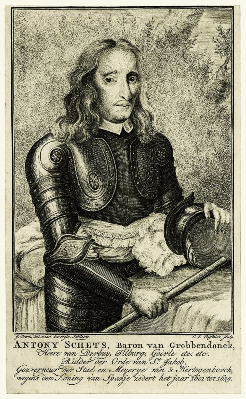 Antony Schetz Baron of Grobbendonck